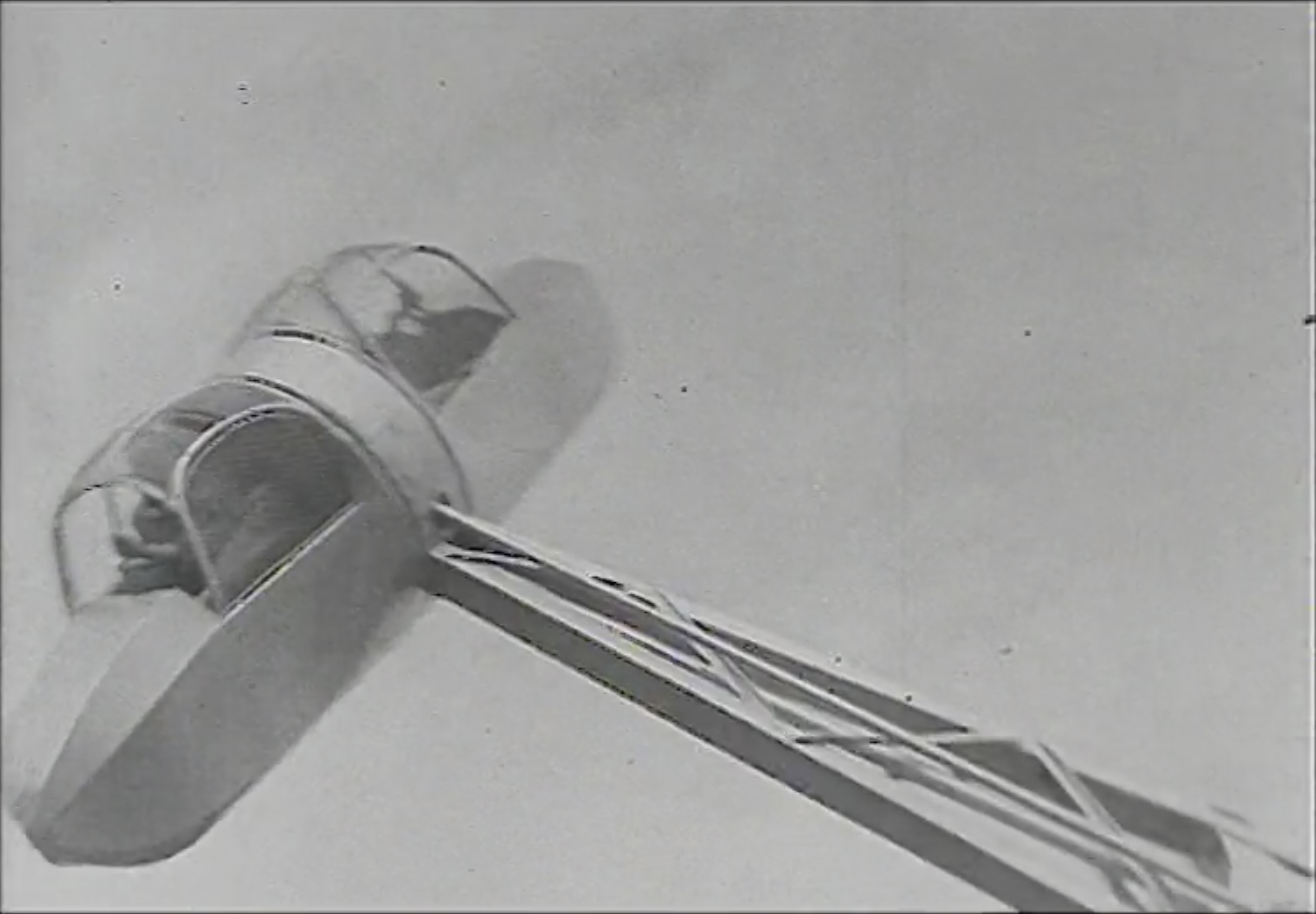 Swing-o-Plane in the Linnanmäki amusement park, Helsinki.